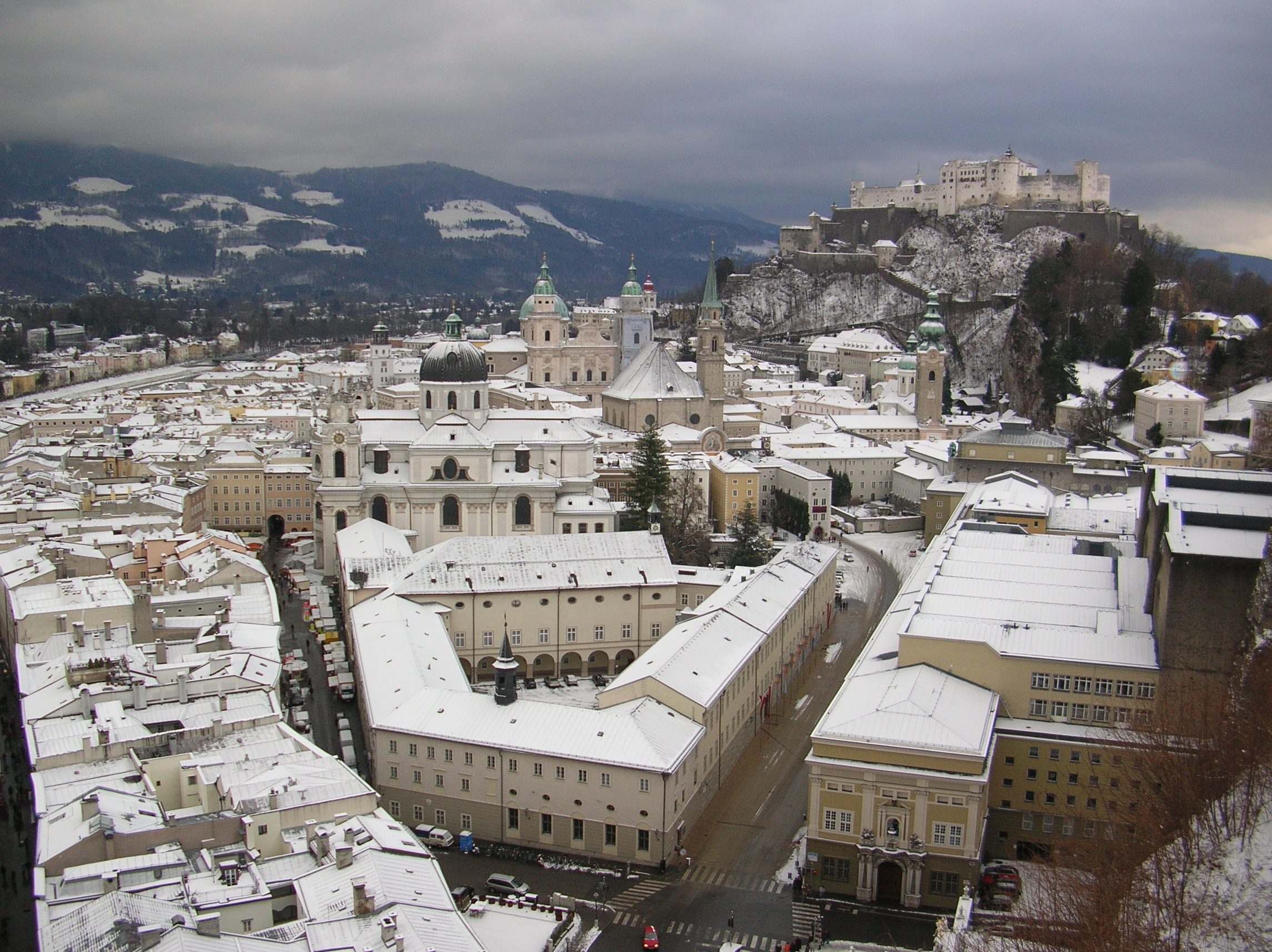 Snowy historic centre of the city of Salzburg